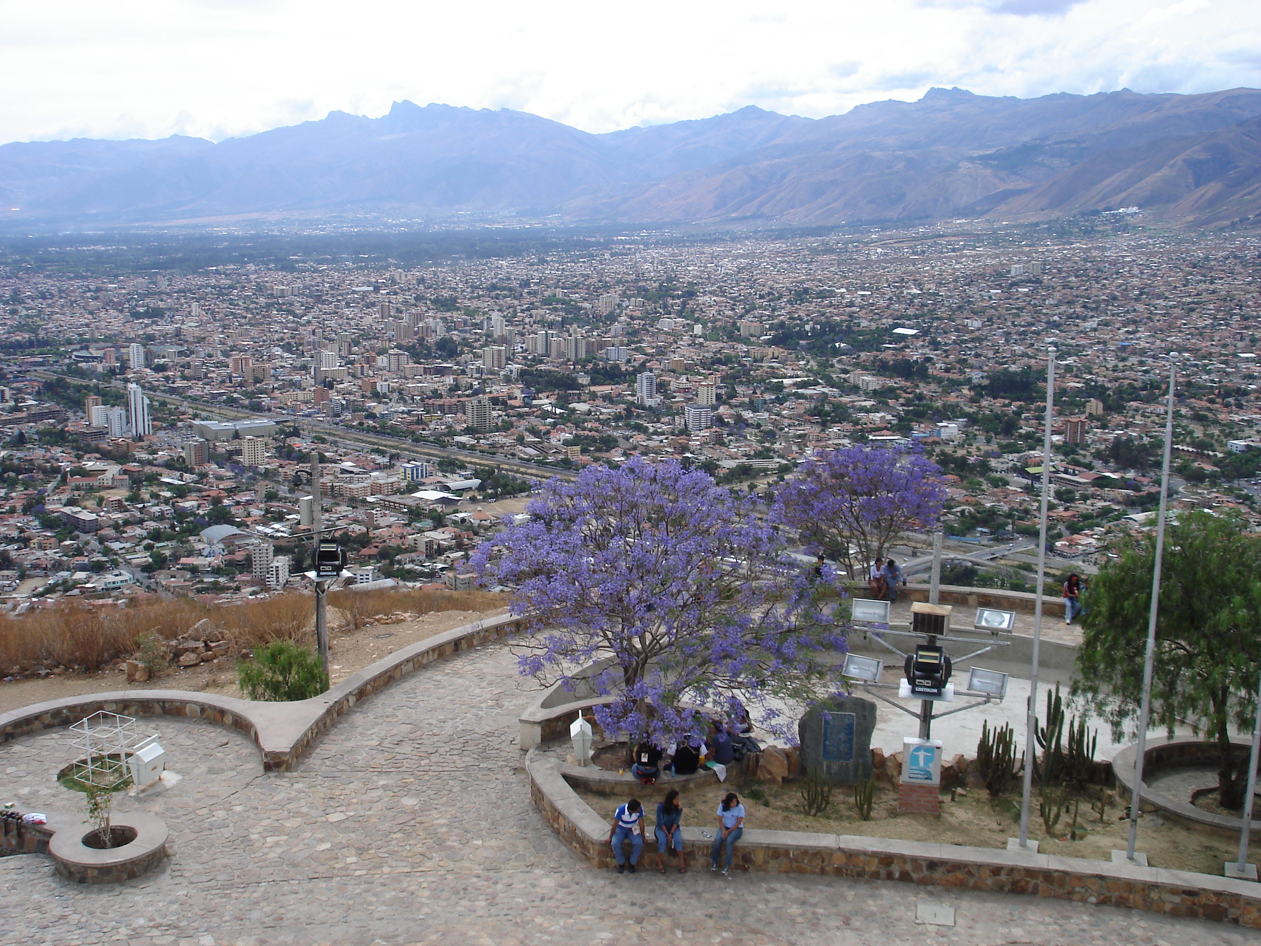 Cochabamba as seen by Christ